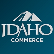 Idaho Department of Commerce Logo